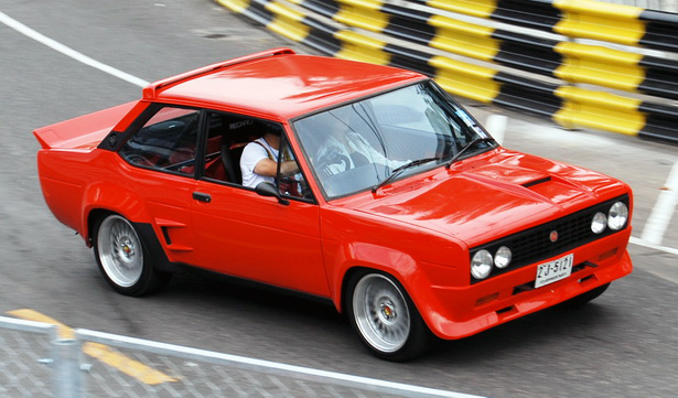 Fiat 131 Abarth (or replica) at the Historic GT-TC Race Parade at the Bangsaen Speed Festival 2007, Chonburi, Thailand